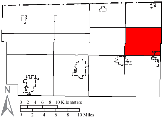 Made by the US Census and modified by myself